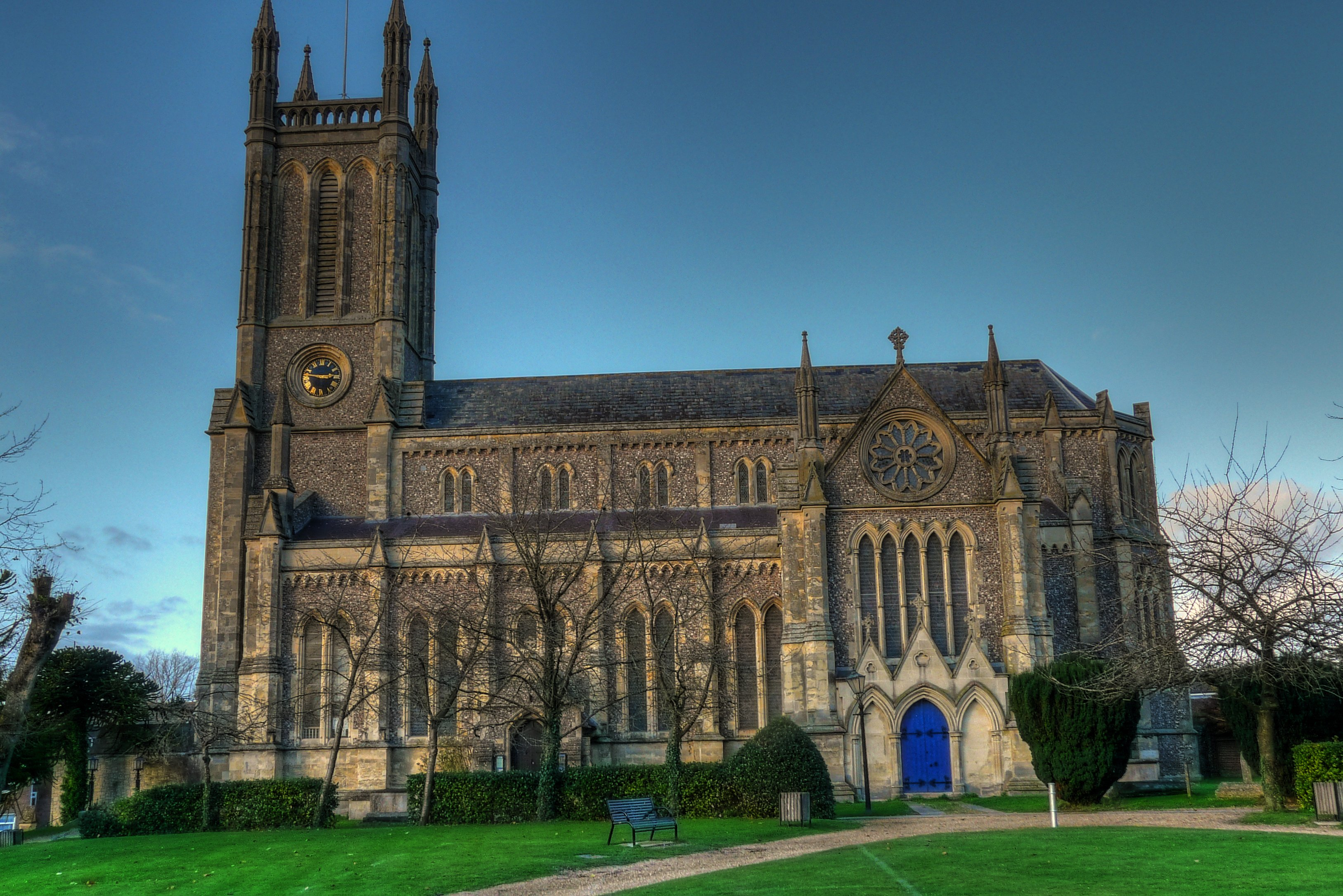 St Marys Parish Church, Andover, Hampshire.